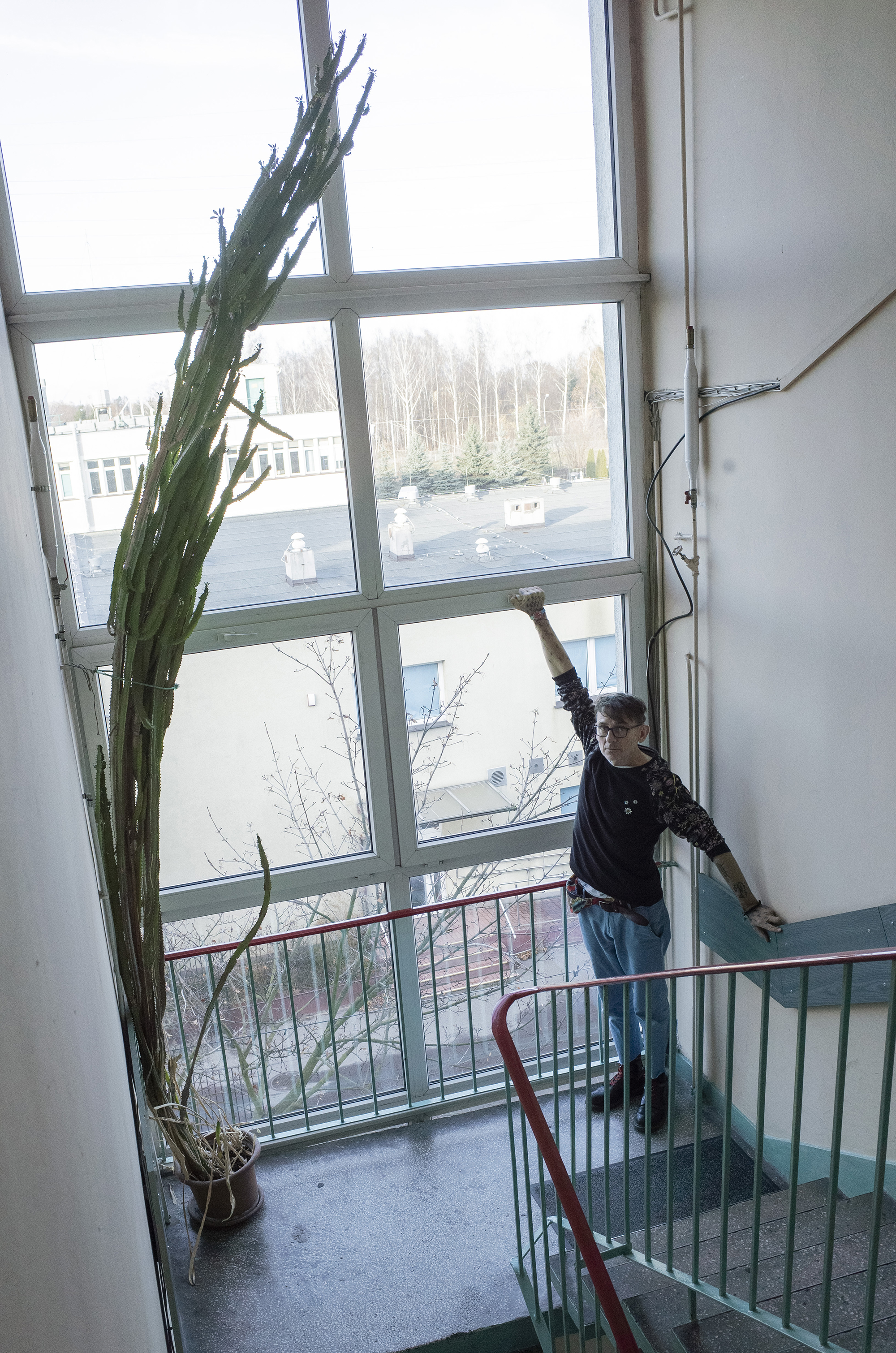 By Elvin Flamingo, Polish artist: Promised Land & me, "Plants in the face of Politics", "Biointelligence", "The language of stray bodies". I take over CACTI & SUCCULENTS that are in need, abandoned, ugly, unwanted, neglected, dried, nobody's and often mutated plants grown in staircases, on window sills, in offices before the fall of the Berlin Wall. I assure that I will take care of every poor guy with historical burdens. I really have a hand for plants. At the moment, apart from 20 healthy plants, I have three poor guys: 2 Echinopsis chamaecereus and 1 Euphorbia trigona. Their names are Volga 24 (1979), Jelcz 043 (1974) and Promised Land (1972). "Plants in the face of Politics", "Biointelligence", "The language of stray bodies".